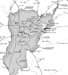 Map of the area that would be inundated by a failure of the proposed Auburn Dam, CA